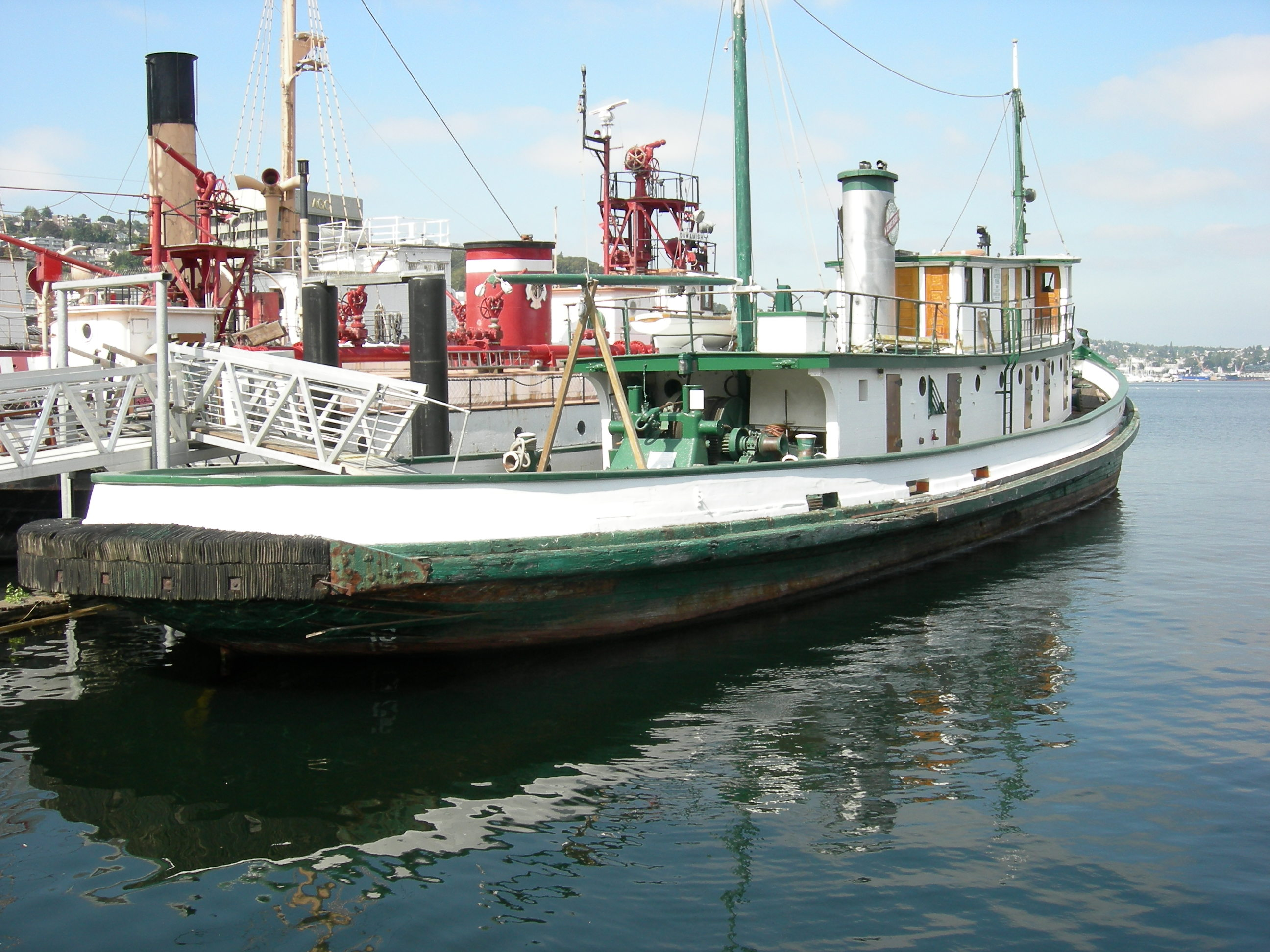 The tugboat Arthur Foss, built 1889, one of the historic fleet of Northwest Seaport, South Lake Union Park, Seattle, Washington, USA. The tug is a Seattle city landmark and is listed on the National Register of Historic Places (NRHP), ID #89001078. Other ships behind it include the Swiftsure, also a city landmark and on the NRHP.